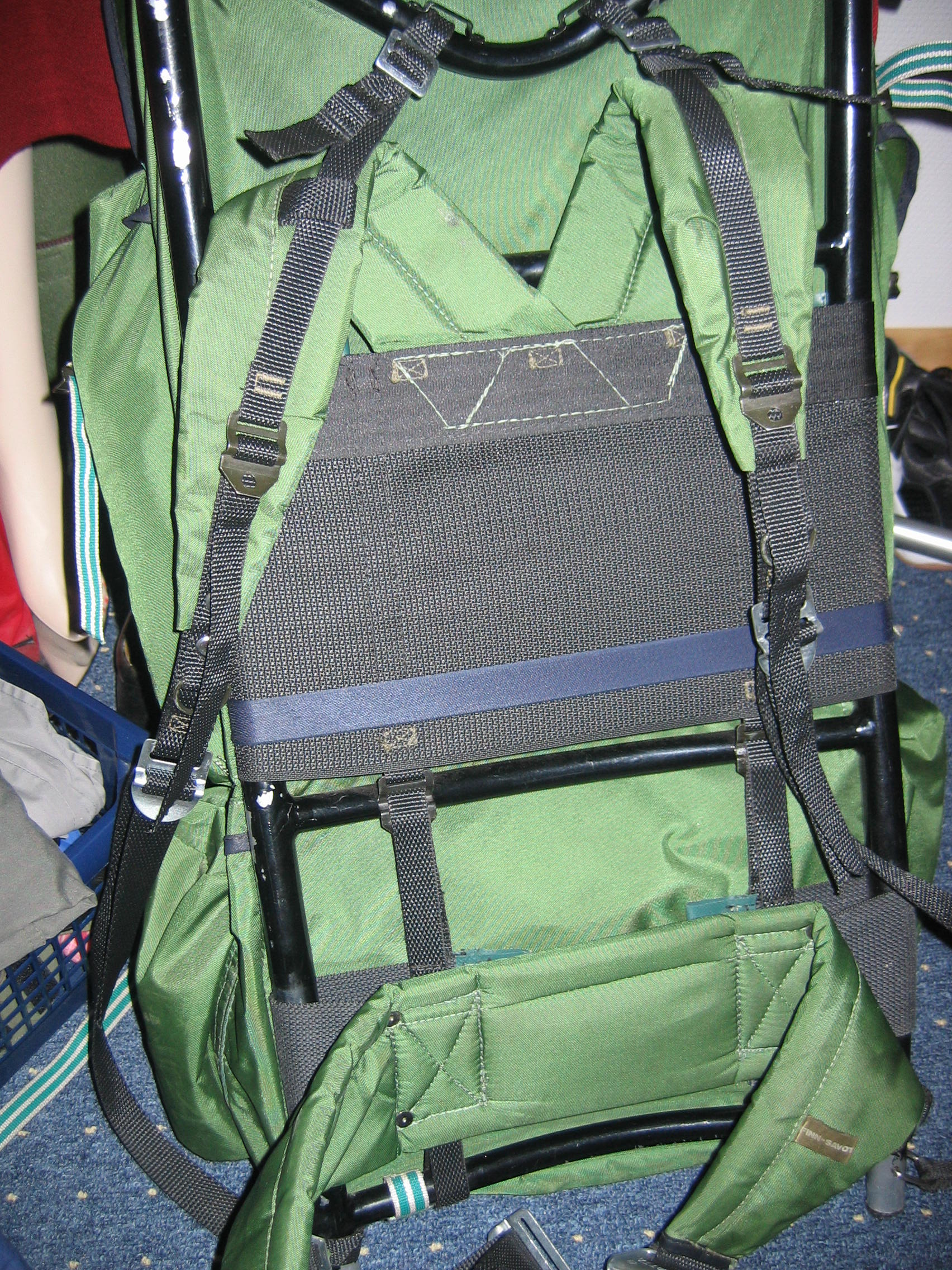 The medium-size "Savotta" backpack system made in Finland.